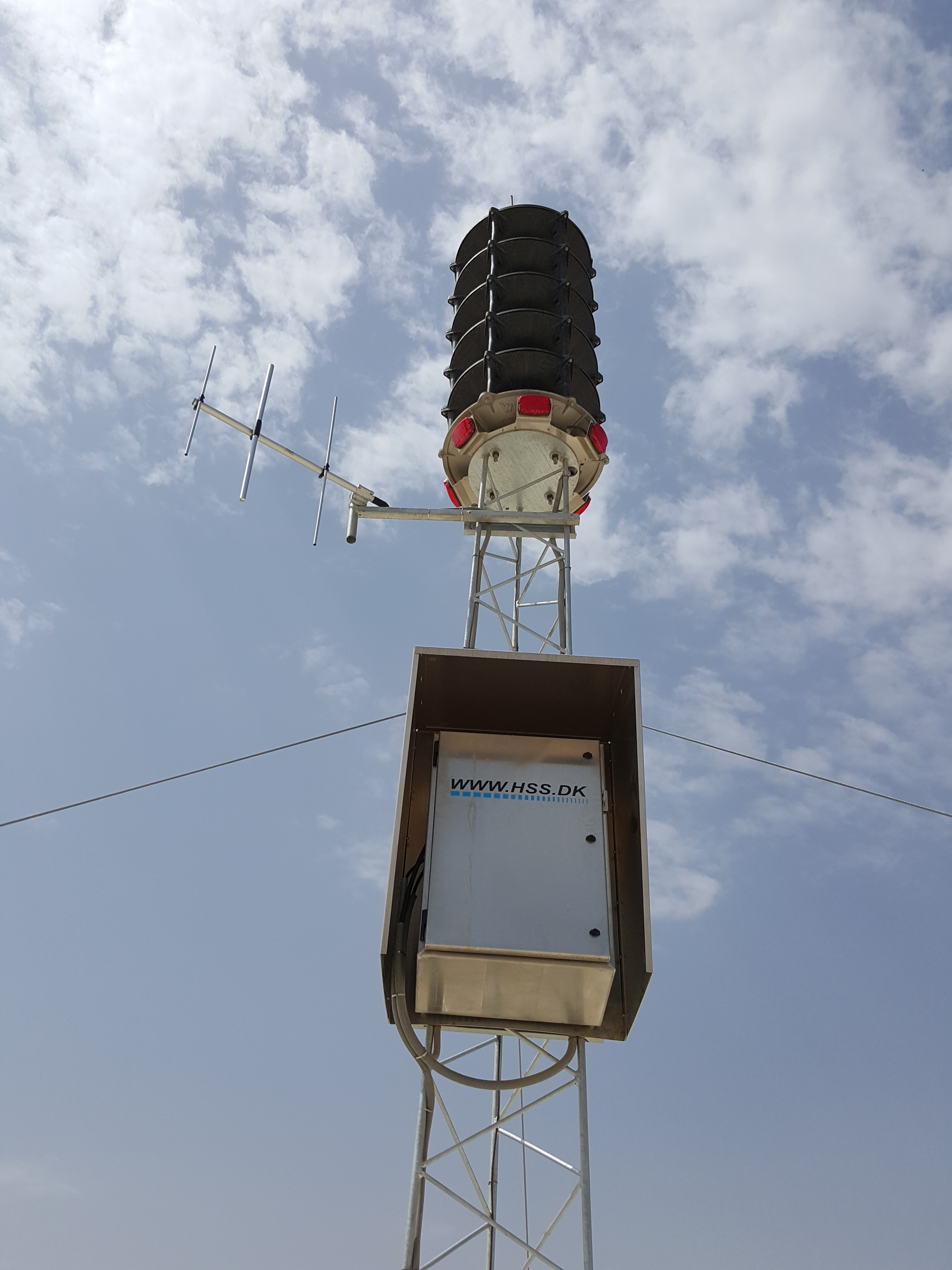 Civil Defense Saudi Arabia